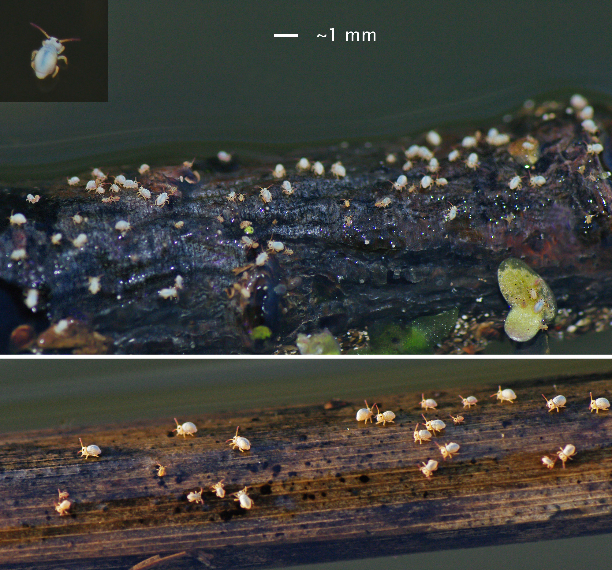 Tiny white springtails (probably Sminthurides aquaticus) on the surface of a pond (here resting on branches/stalks floating on the water). They are so small (~0.2–0.5 mm?) that they can't be identified as animals with the naked eye. It just looks like tiny white particles moving on the water – but apparently on their own power. These springtails make large jumps with a multiple length of their body size (sometimes several centimeters).